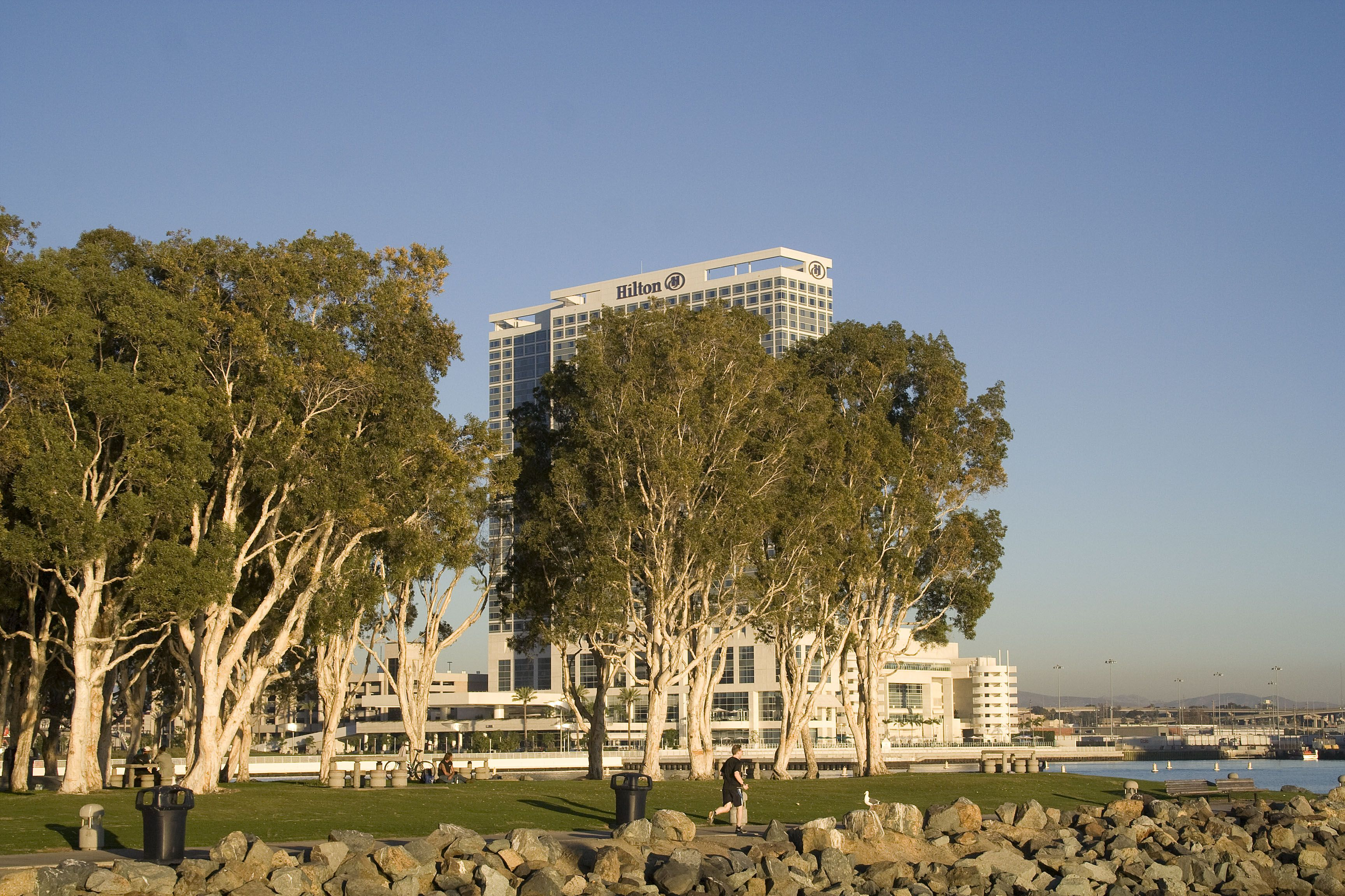 Embarcadero Marina Park South with Hilton hotel on background